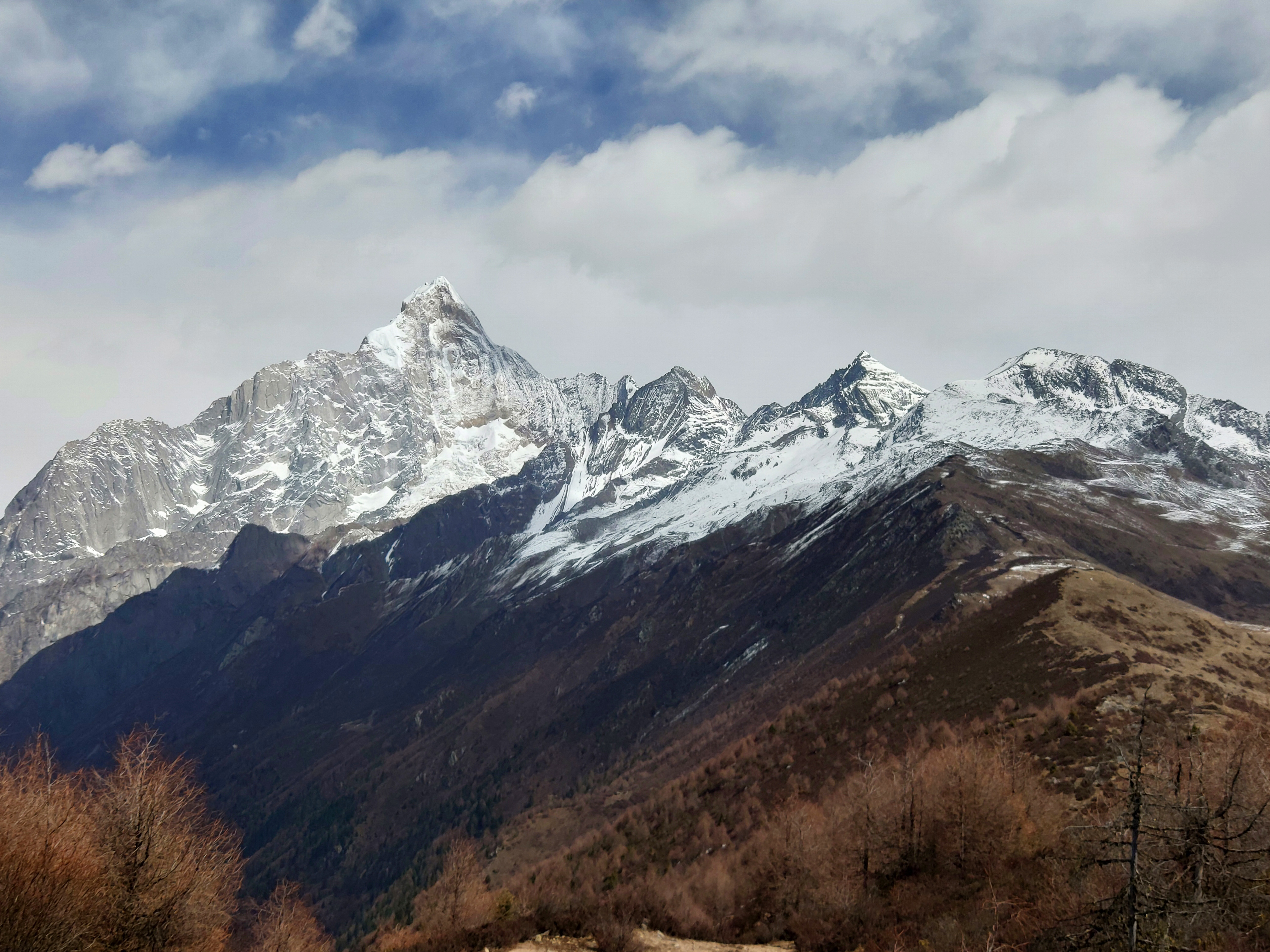 Mount Siguniang encompasses four peaks (with Feng 峰 meaning 'peak'): Daguniang Feng 大姑娘峰 (Big Peak or 1st peak), Erguniang Feng 二姑娘峰 (2nd peak), Sangungiang Feng 三姑娘峰 (3rd peak), and Yaomei Feng, also known as Sanzuoshan Feng 三座山峰 (4th peak).